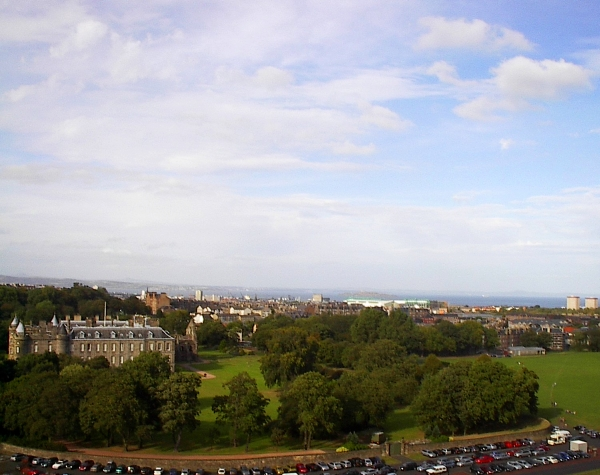 A view of Abbeyhill, Edinburgh. The building on the left is Holyrood Palace. You can see the sea in the distance.